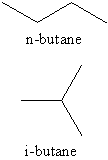 i-butane and n-butane